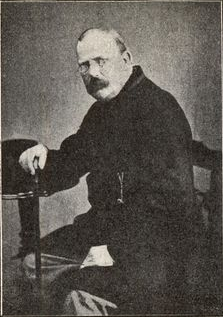 Picture of Afze, Anders Johan Afzelius, when he was a student in the 1840s, published 1903 in Nornan.